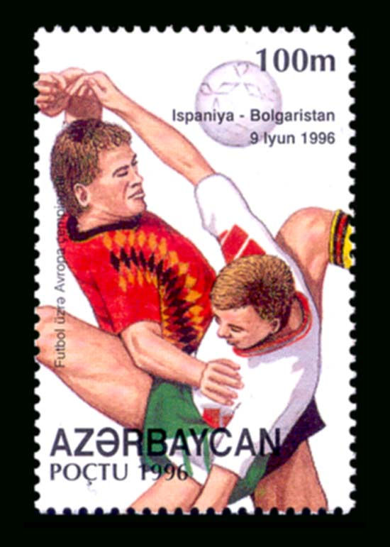 Stamp of Azerbaijan